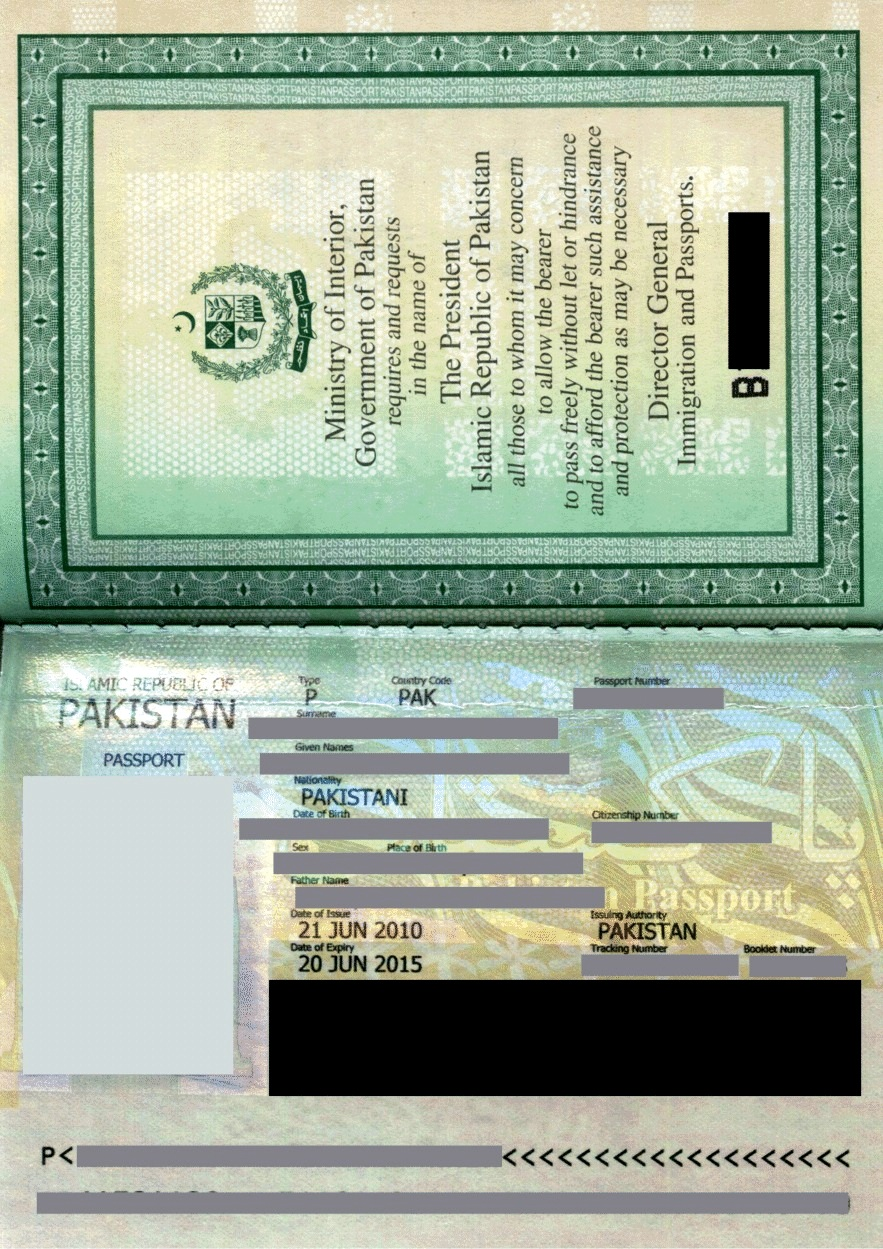 Pakistan Passport Bio data Page